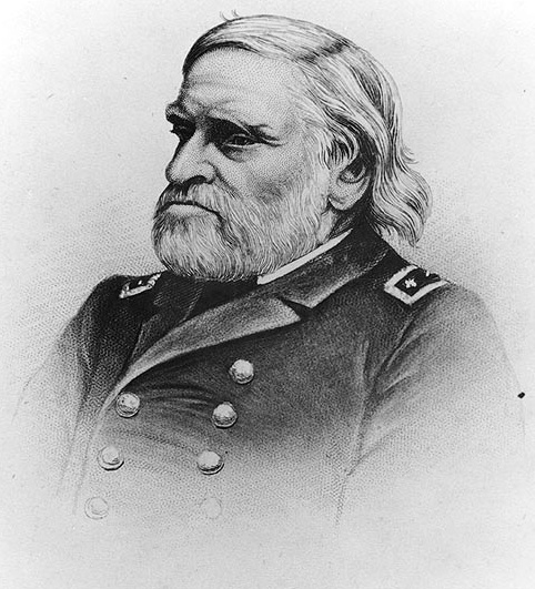 Captain Josiah Tattnall, CSN. Engraved portrait